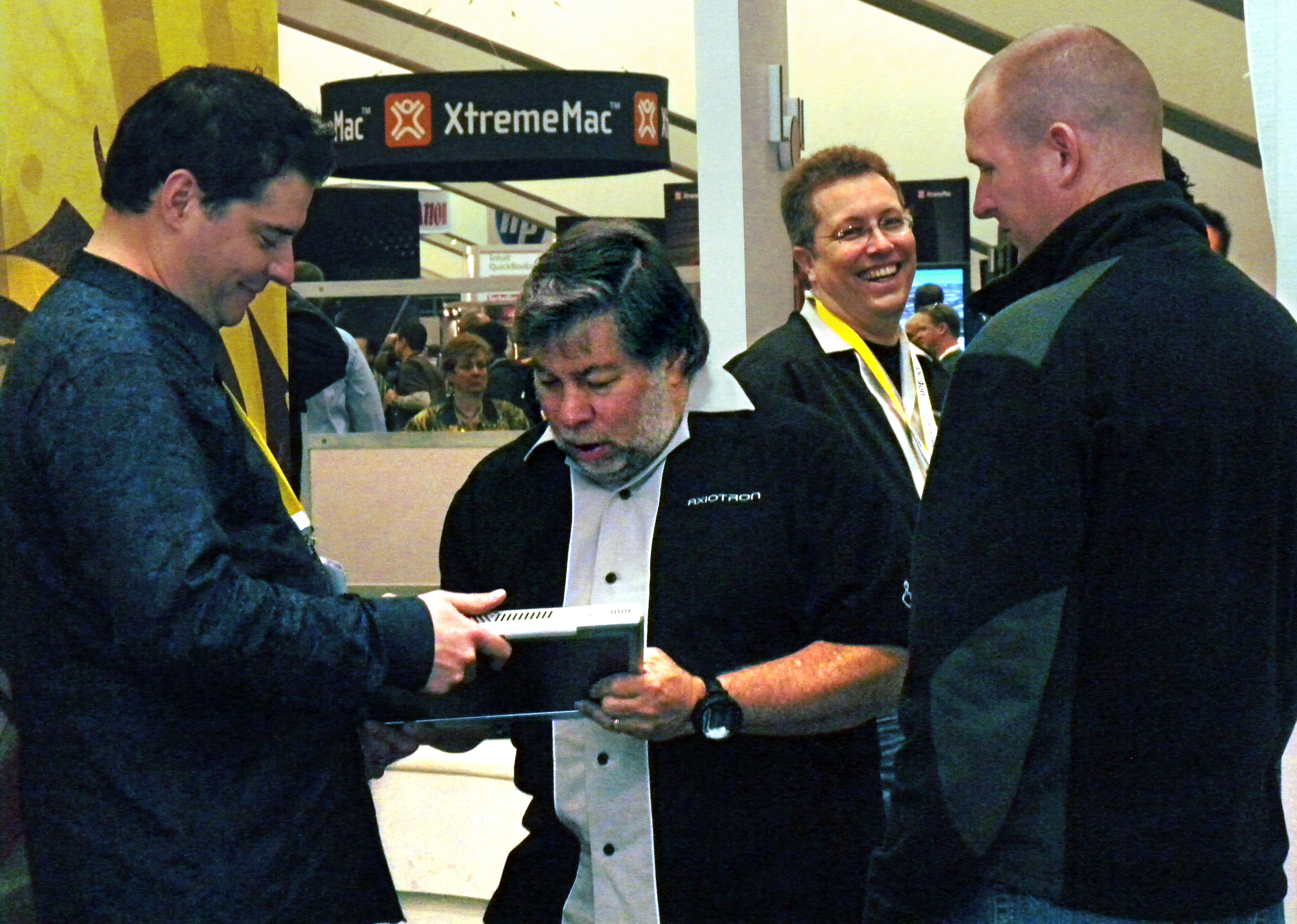 Steve Wozniak, co-founder of Apple, signs a Modbook for a fan during Macworld Expo 2009 while the CEO of Axiotron, Andreas Hass smiles on.